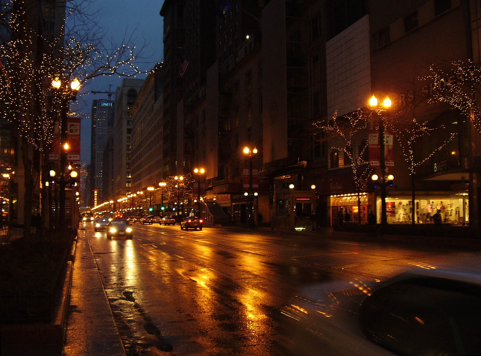 standing in front of the Palmer House with the Chicago Theatre in the distance. taken by Lee Shaje in Chicago 2007.